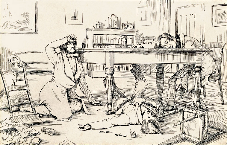 The effects of liquid chloroform on Sir J. Y. Simpson and his friends. The shattered drinking-glass used by one of the experimenters lies on the floor.